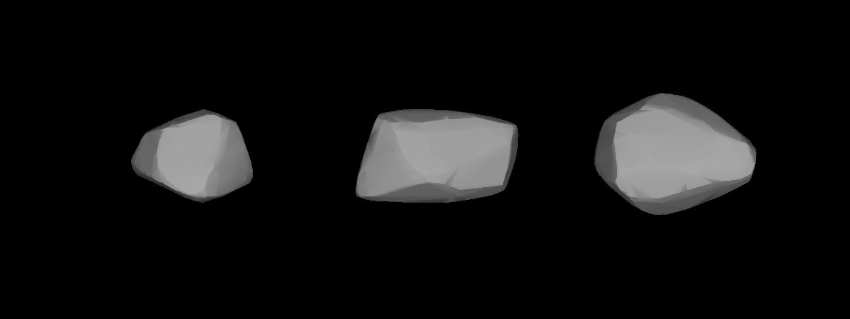 A three-dimensional model of 590 Tomyris that was computed using light curve inversion techniques.